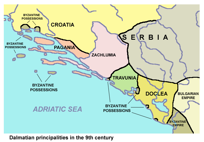 South Adriatiac Sclavinias.